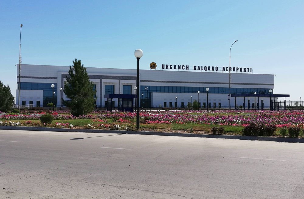 Urgench International Airport